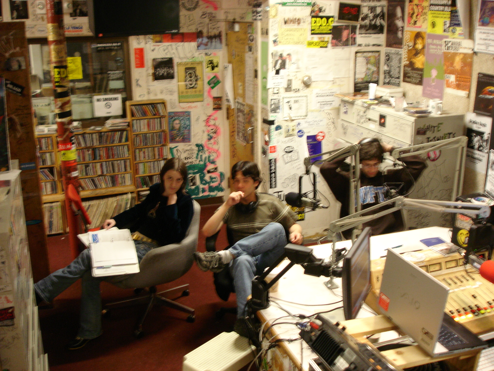 A view of Studio A from on high...